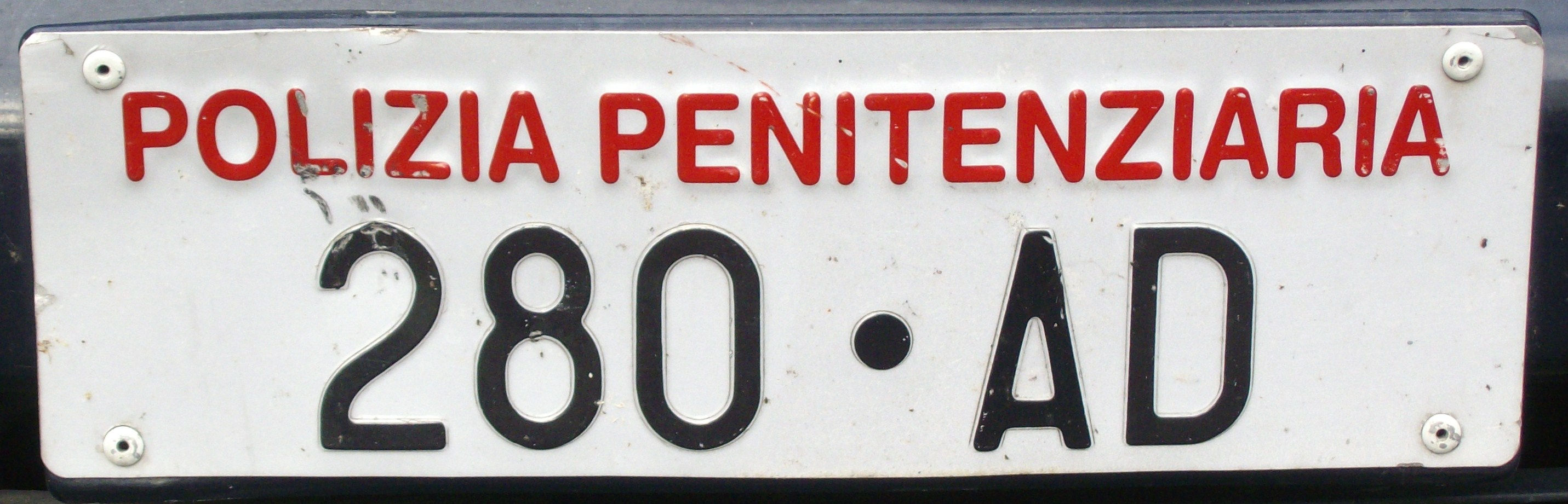 Polizia Penitenziaria front license plate.